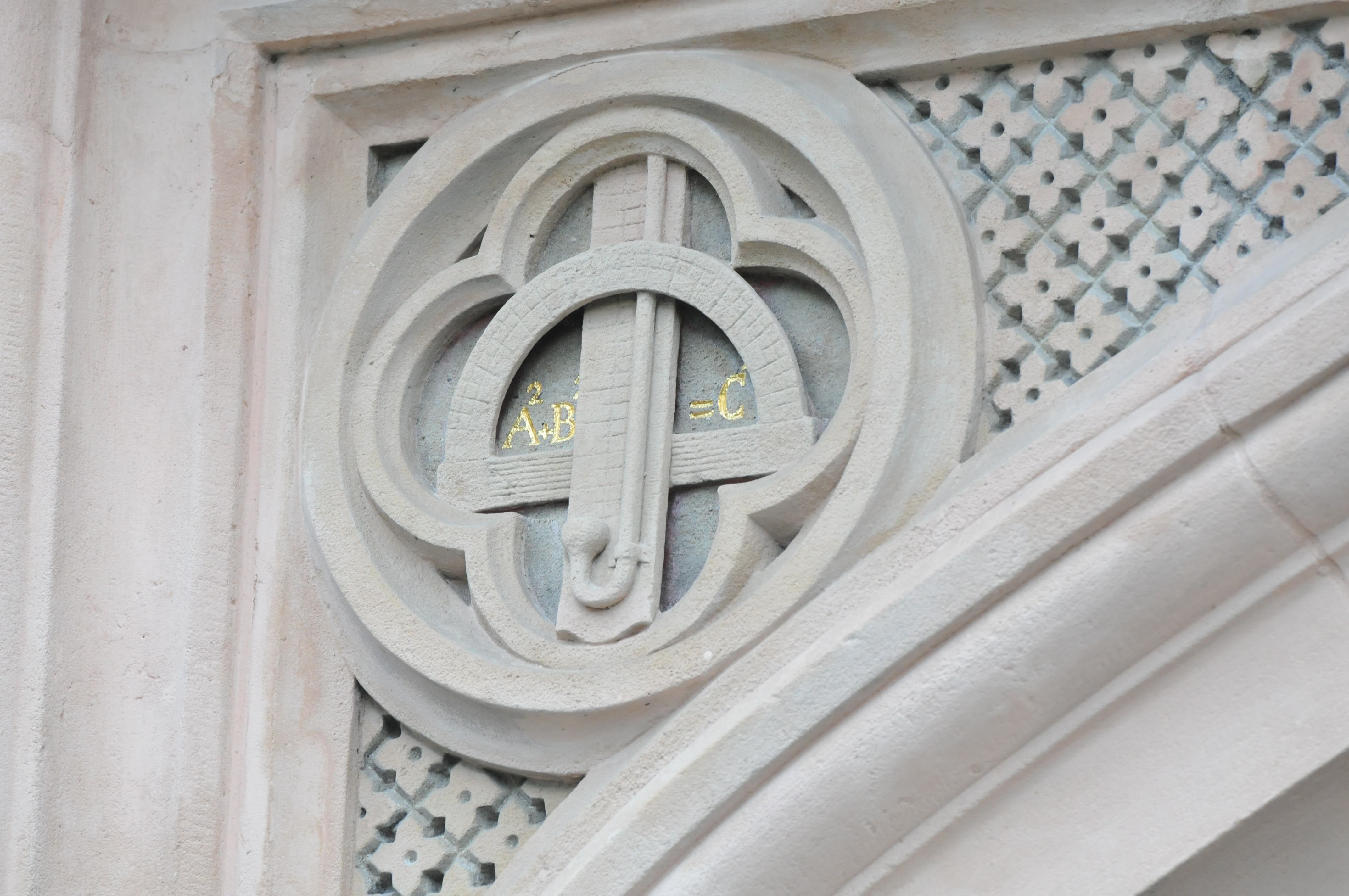 Inner city of Zittau, Saxony, Germany. Wikipedians in Seifhennersdorf This photo was taken during the project Wikipedians in Seifhennersdorf in May 2014. Supported by Wikimedia Deutschland, Wikimedia Österreich, Wikimedia Polska and Wikimedia Czech Republic. The making of this document was supported by Wikimedia Austria.